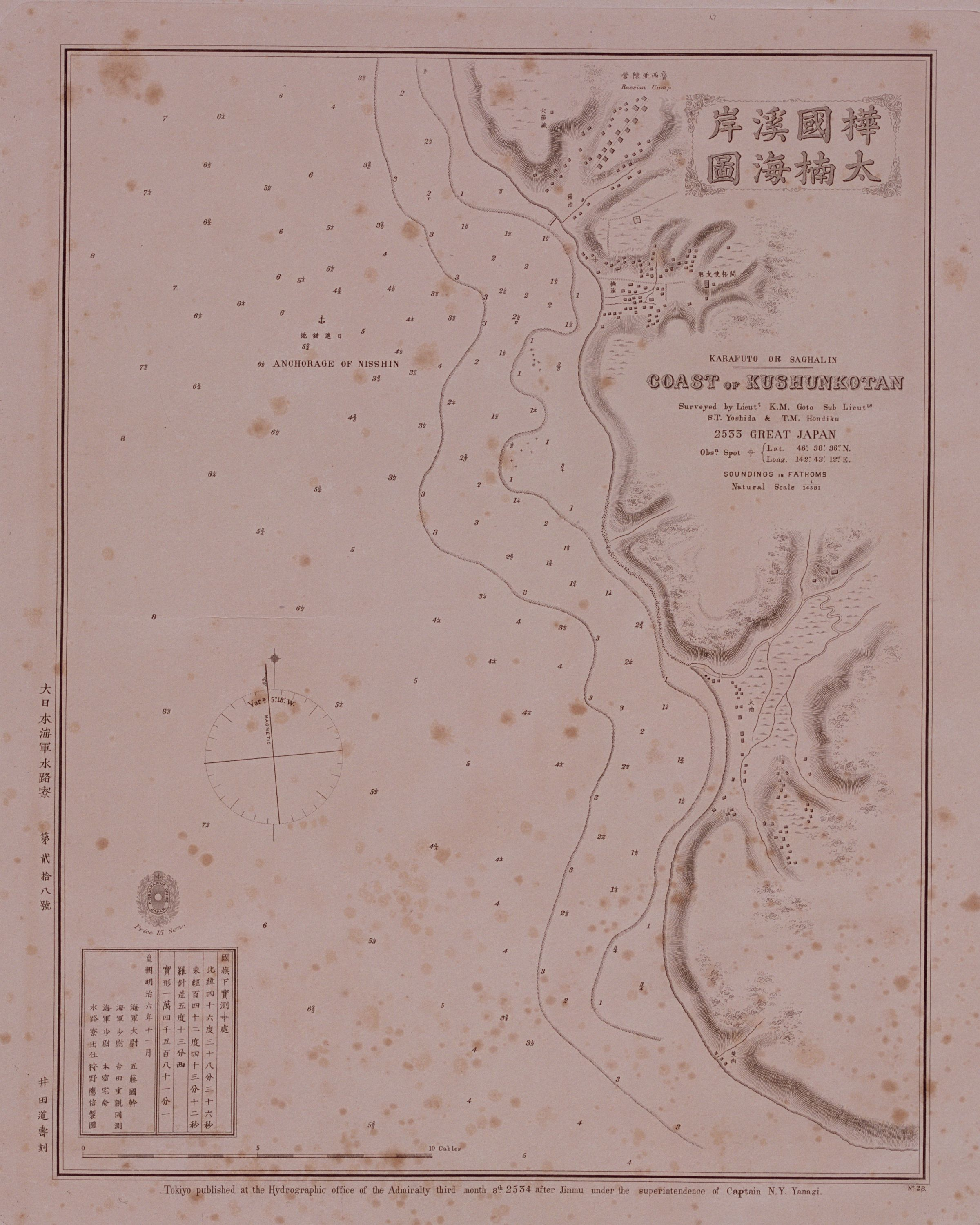 Coast of Kushunkotan (now town of Korsakov, Sakhalin region, Russia). Japanese map published in Tokyo at the Hydrographic office of the admiralty third month 8th 2534 after Jinmu (1873 AD) under the superintendence of Captain N.Y. Yanagi.